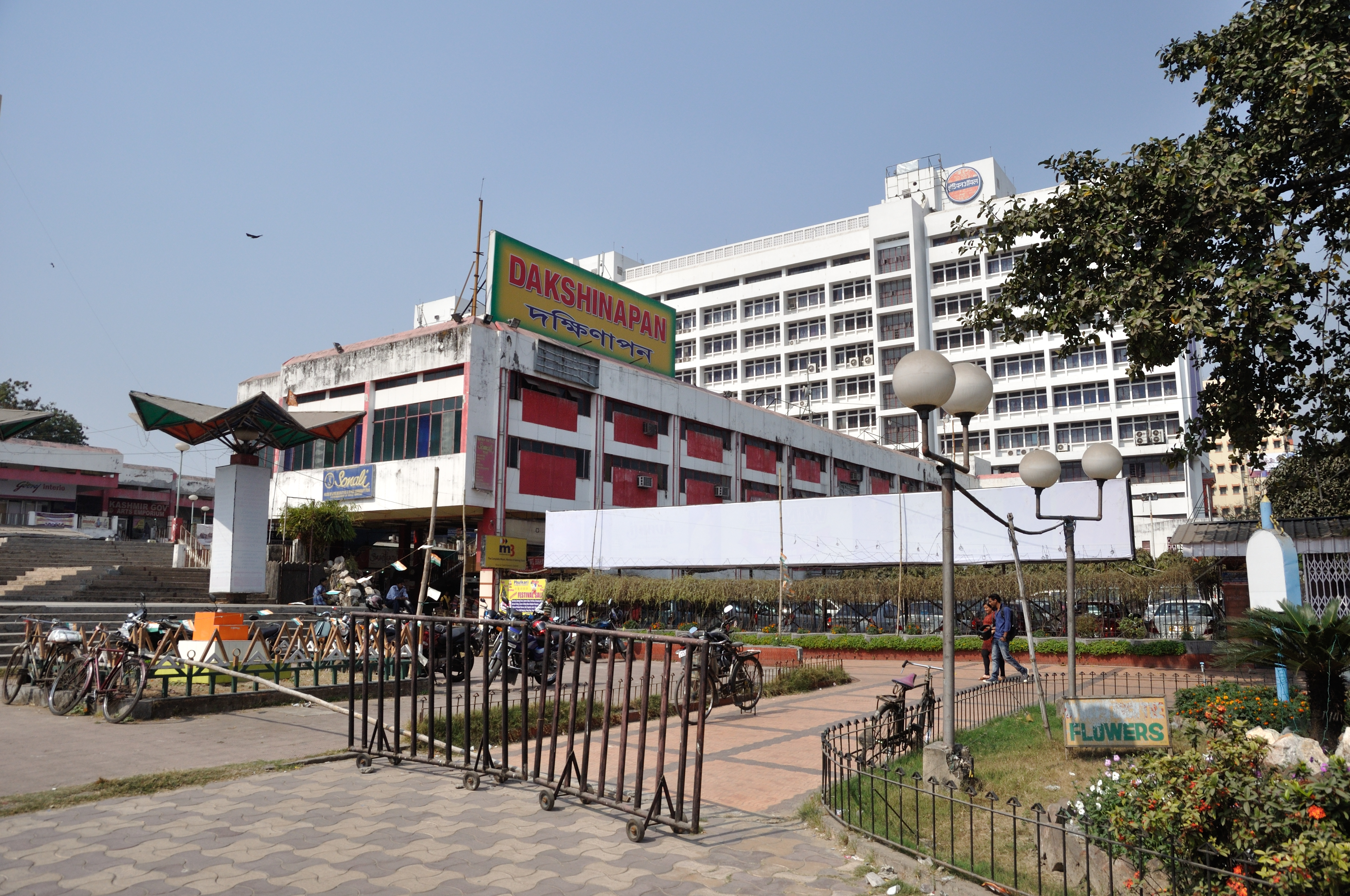 Photographed in Kolkata.